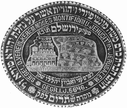 Moses Montefiore's seal related to 1886 land purchase in Jerusalem